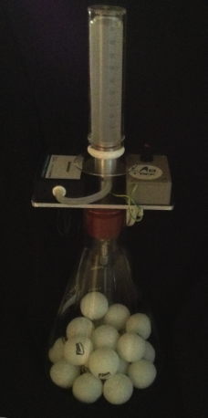 Rüchardt exp. apparatus with P-VT sensors